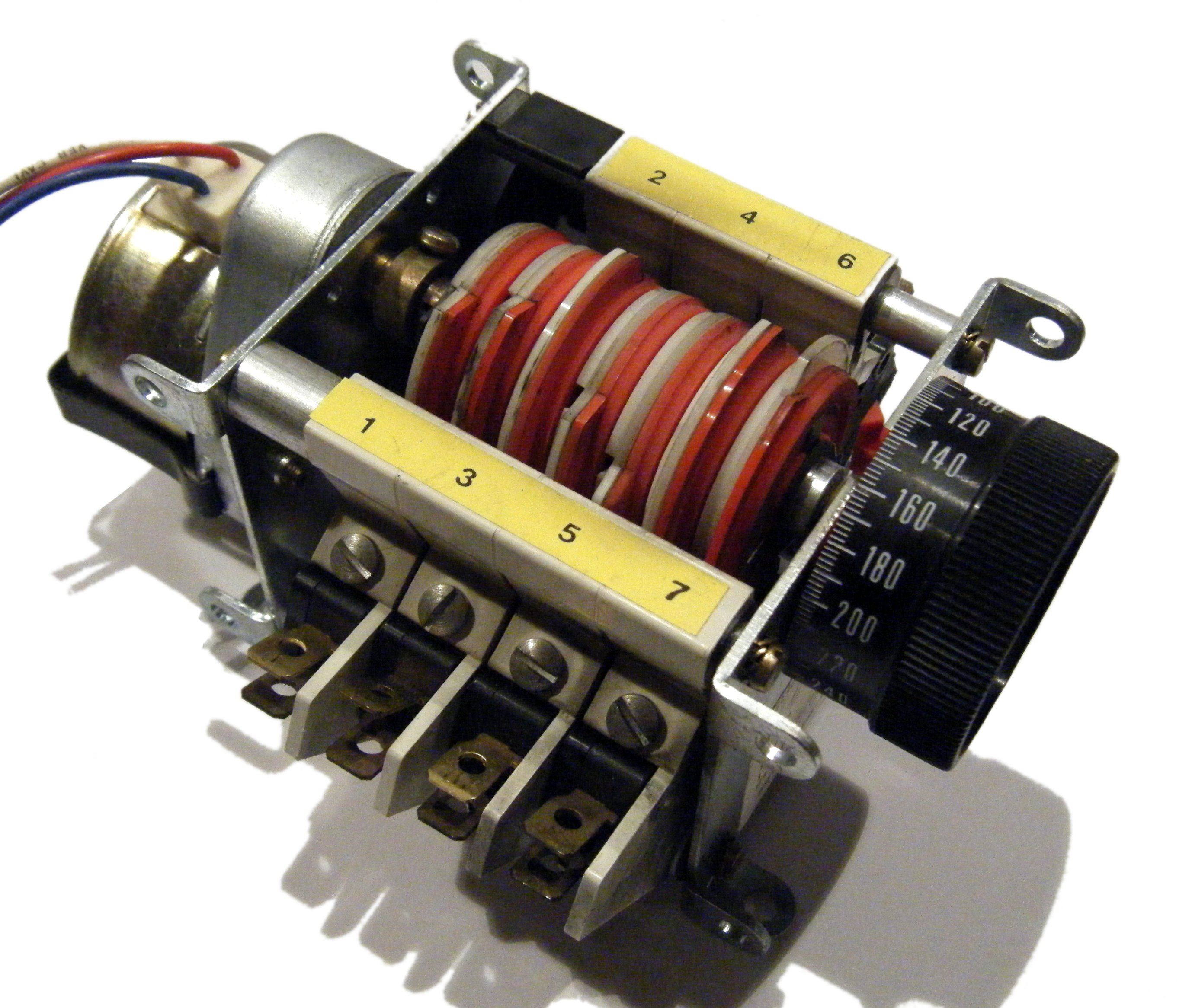 Cam timer - 7 cams for 7 switches. Each switch has 1 common terminal, 1 normally-open and 1 normally-closed. The motor runs at 600rpm, and the cams turn once every 6 minutes.